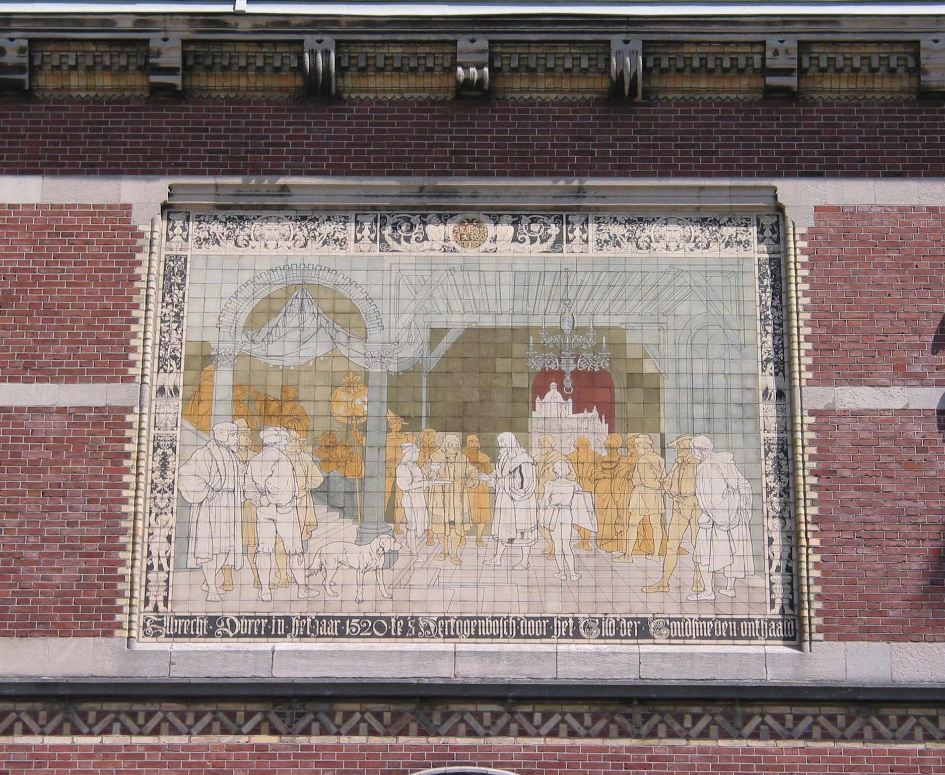 Tile picture Albrecht Dürer in the year 1520 greeted by the 's-Hertogenbosch Guild of Goldsmiths.